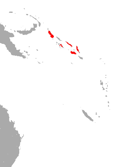 Fierce Roundleaf Bat (Hipposideros dinops) range